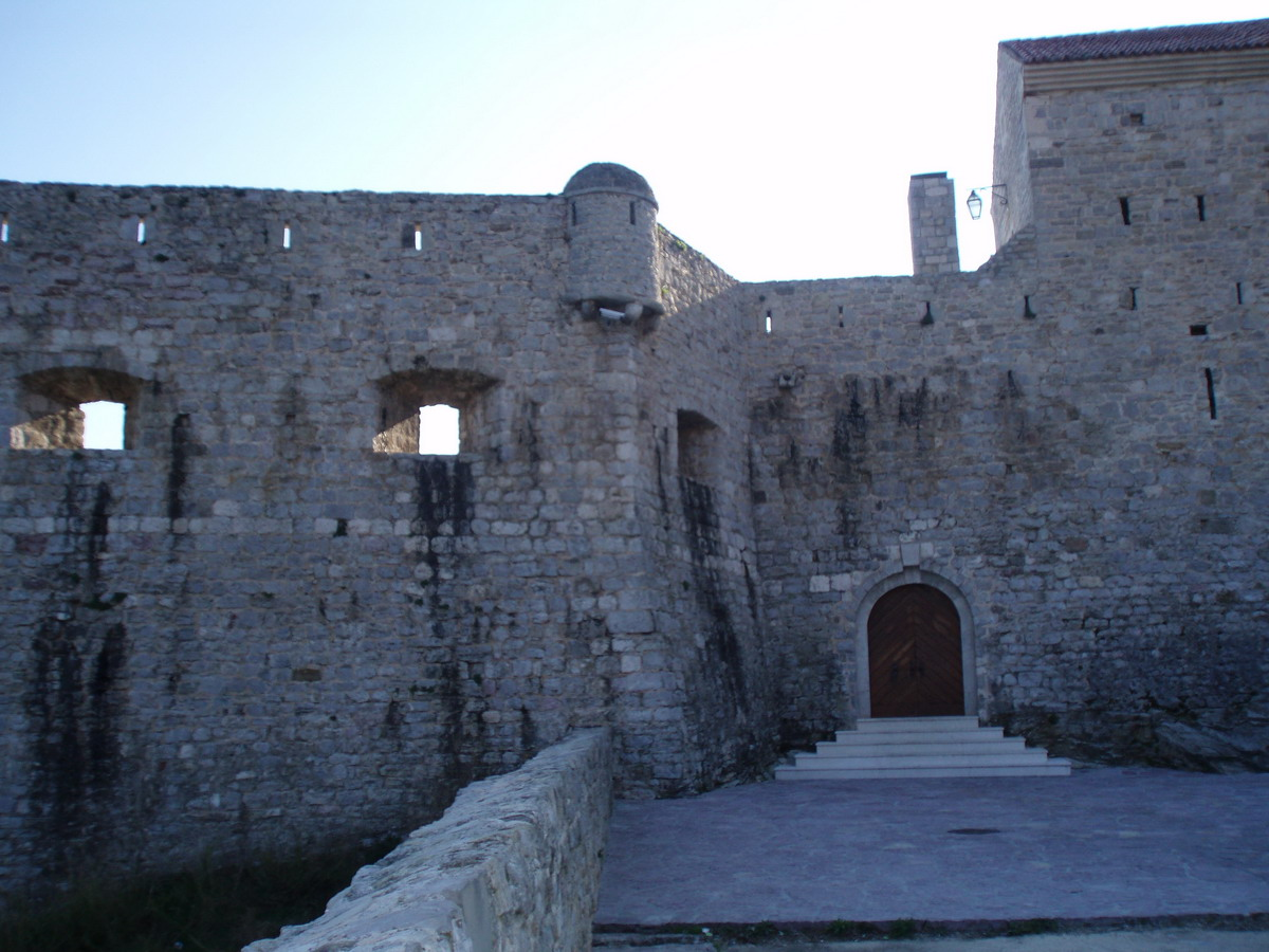 Old Town, Budva. Entry in citadela.